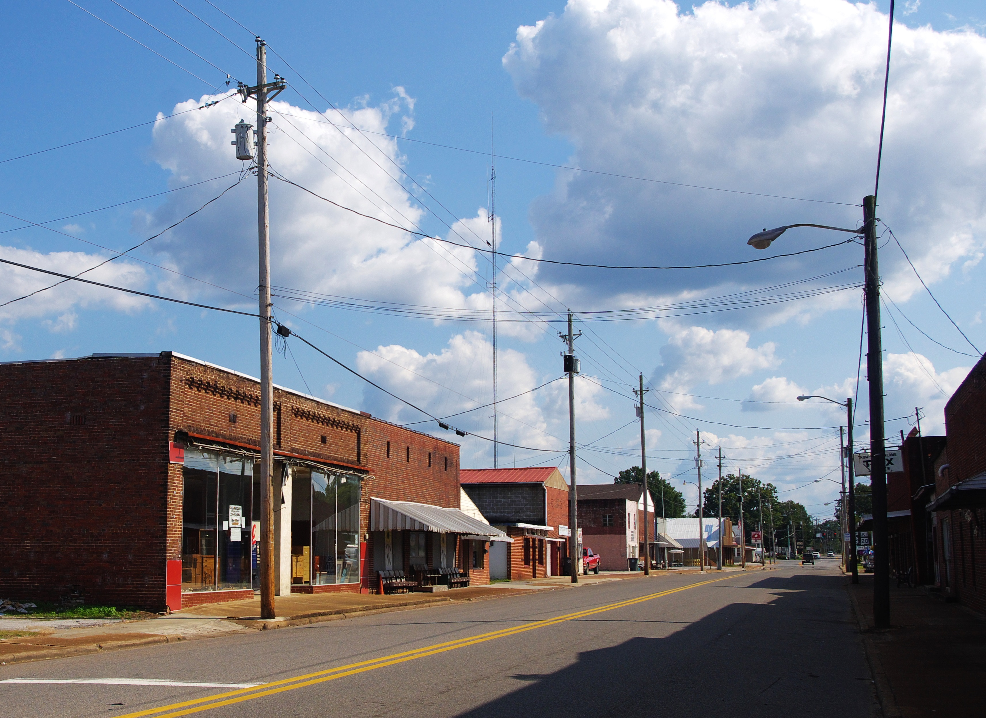 Buildings along Main Street (State Route 101) in Town Creek, Alabama, United States.